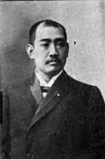 Sampei Hirao Jr